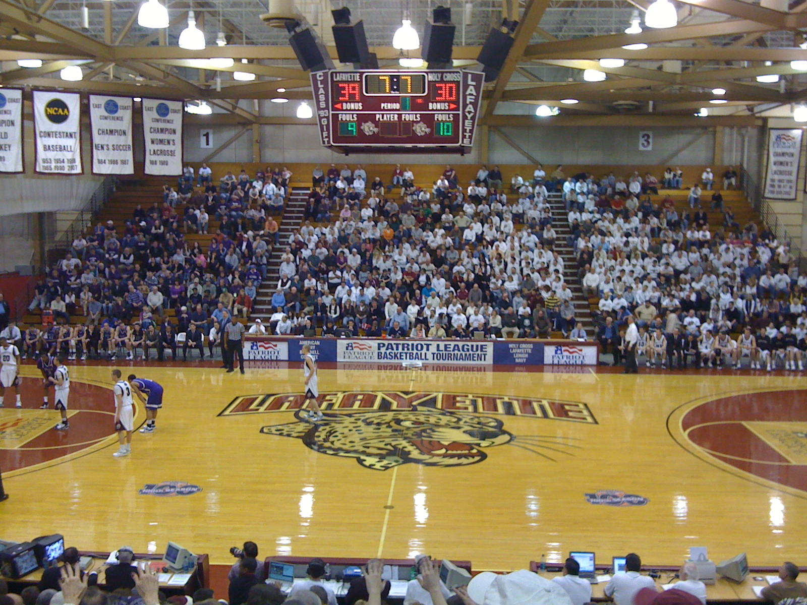 Kirby Sports Center photo from the 2010 Patriot League semi-finals game against Holy Cross.